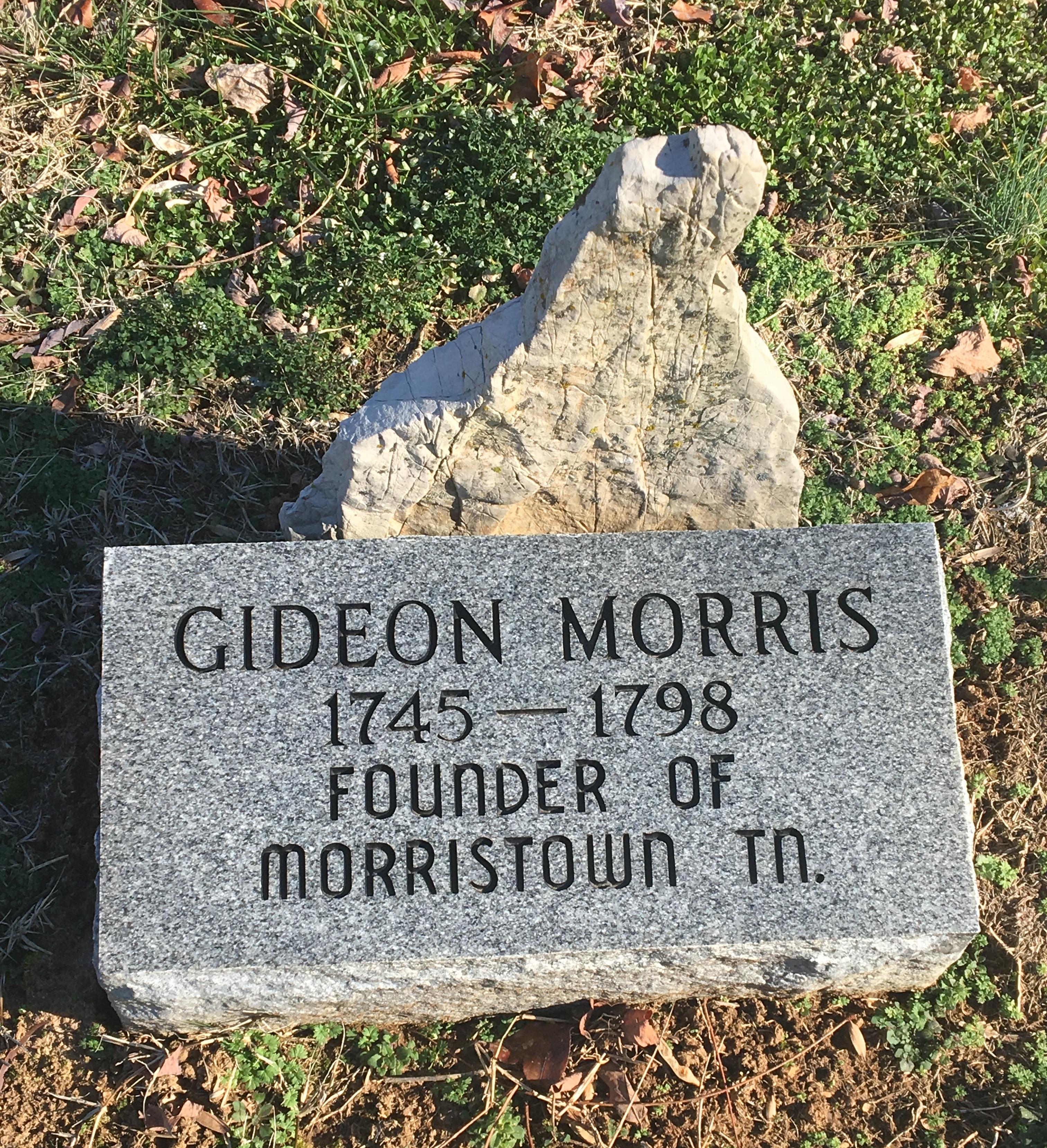 The tombstone of Gideon Morris, the founder of Morristown, Tennessee, taken in January 2019. Though the tombstone states his birth-year to be 1745, many other records have it as 1756.